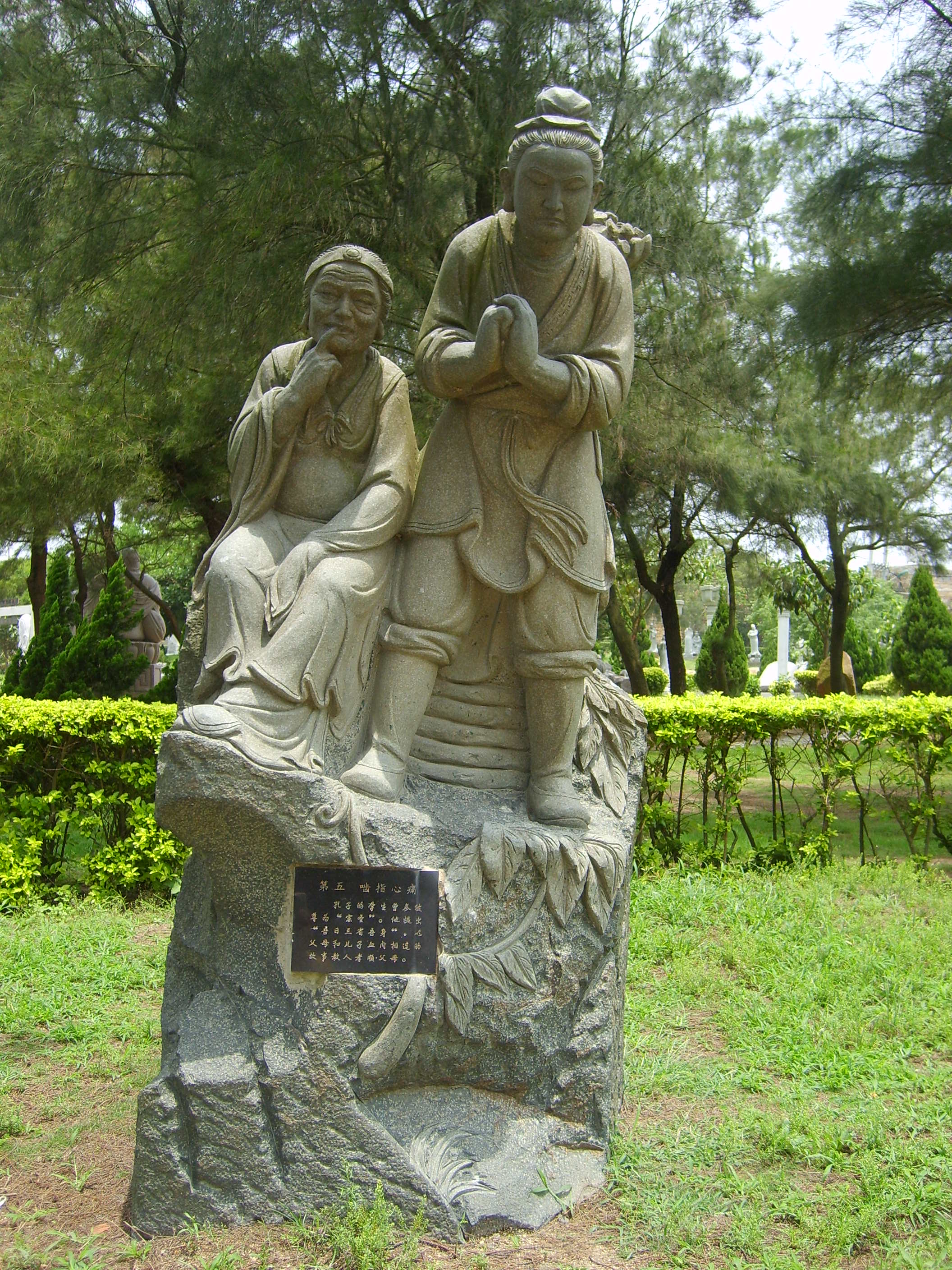 The Twenty-four Filial Exemplars - No. 5